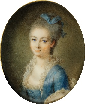 CONTINENTAL SCHOOL, 18TH CENTURY – Three miniatures: Caterina Gattai Tomatis, née Filipazzi (1747-ok. 1792), in blue dress with white frilled collar, blue ribbon in her powdered upswept hair, together with a young lady, in blue dress with white frills, blue ribbons in her powdered upswept hair and below chin, frilled white shawl; together with a young lady, in décolleté black dress bordered with pearls, pearl choker and pearls, black ribbon and white plumes in her powdered upswept hair on ivory, the third with later added card section , ovals, 45 mm. ; 69 mm.; 45 mm./1200-1800/ PROVENANCE: The portrait of Katarzyna Tomatis: Stanislas II Augustus Poniatowski (1732-1798), King of Poland 1764-1795. His nephew, Prince Jósef Poniatowski (1763-1813). On his death in 1813, his sister Maria Teresa Tyszkiewicz (1761-1831). Sold on 27 October 1821 to Antonio Fusi. Prince Alexander Drucki-Lubecki (1861-1926) Collection, Warsaw. The portraits of two unknown ladies: Prince Alexander Drucki-Lubecki (1861-1926) Collection, Warsaw. E X H I B I T E D : Warsaw – Pamiętnik Wystawy Miniatur oraz Tkanin i Haftów , 1912, nos. 959?, 958? and 956.